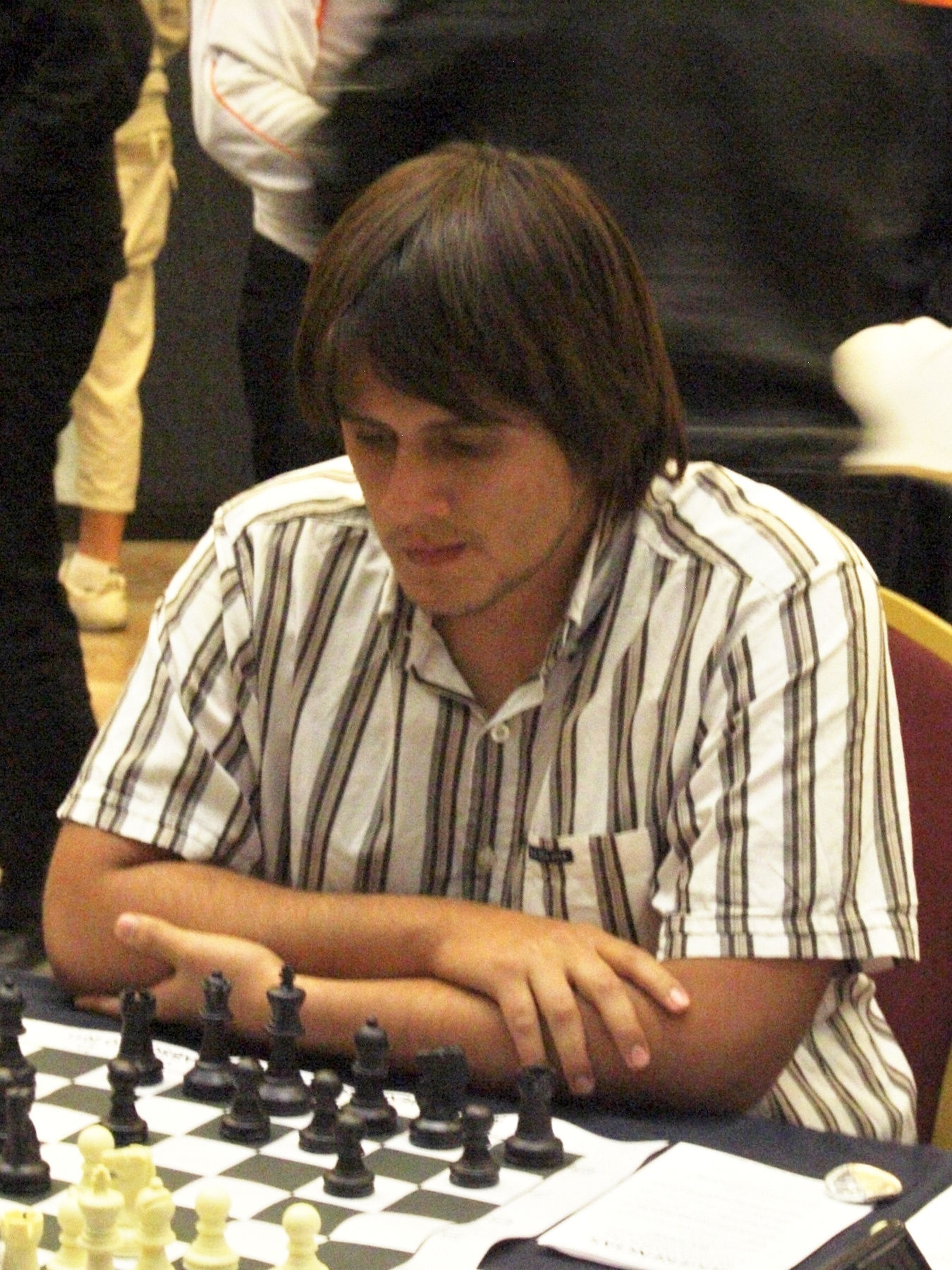 Emilio Cordova during the American Continental Chess Championship in Toluca (Mexico), April 2011